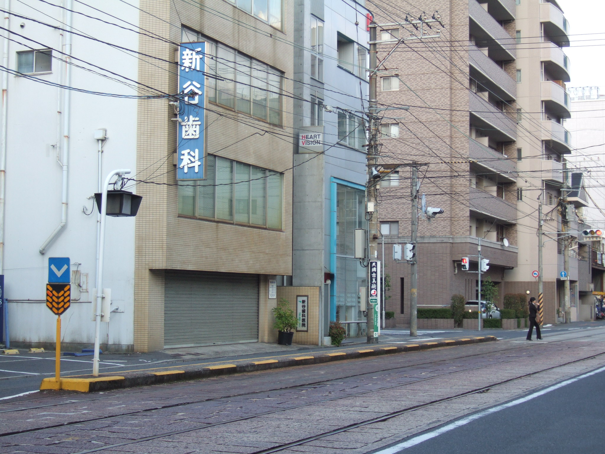 Tenma-chō Tram Stop for Hiroshima Station on Hiroshima Electric Railway(Hiroden) Main Line